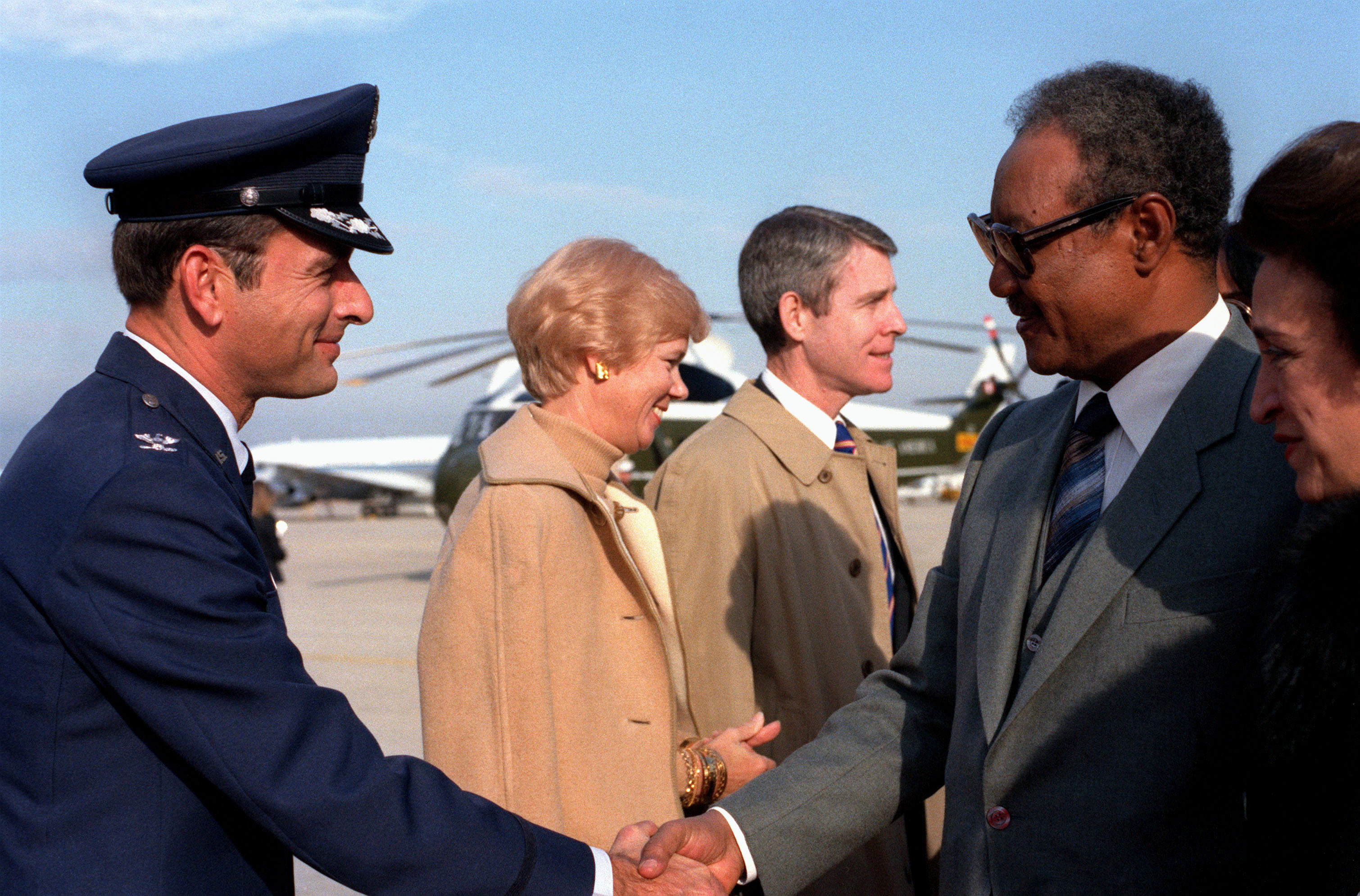 ANDERWS AIR FORCE BASE, President Gaafar Mohammad Nimeiri of Sudan arrives for a state visit.